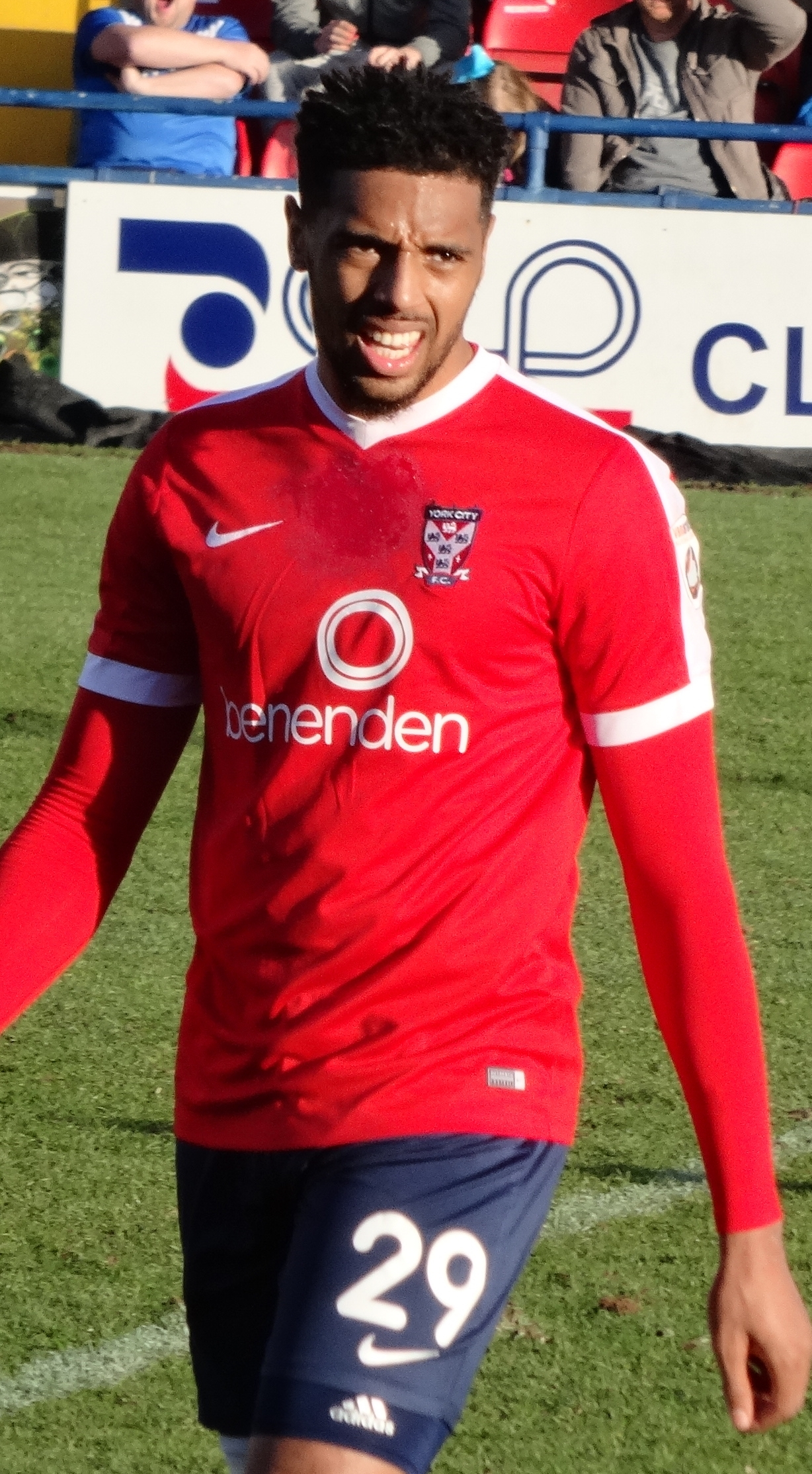 Vadaine Oliver playing for York City against Eastleigh at Bootham Crescent, York on 4 March 2017